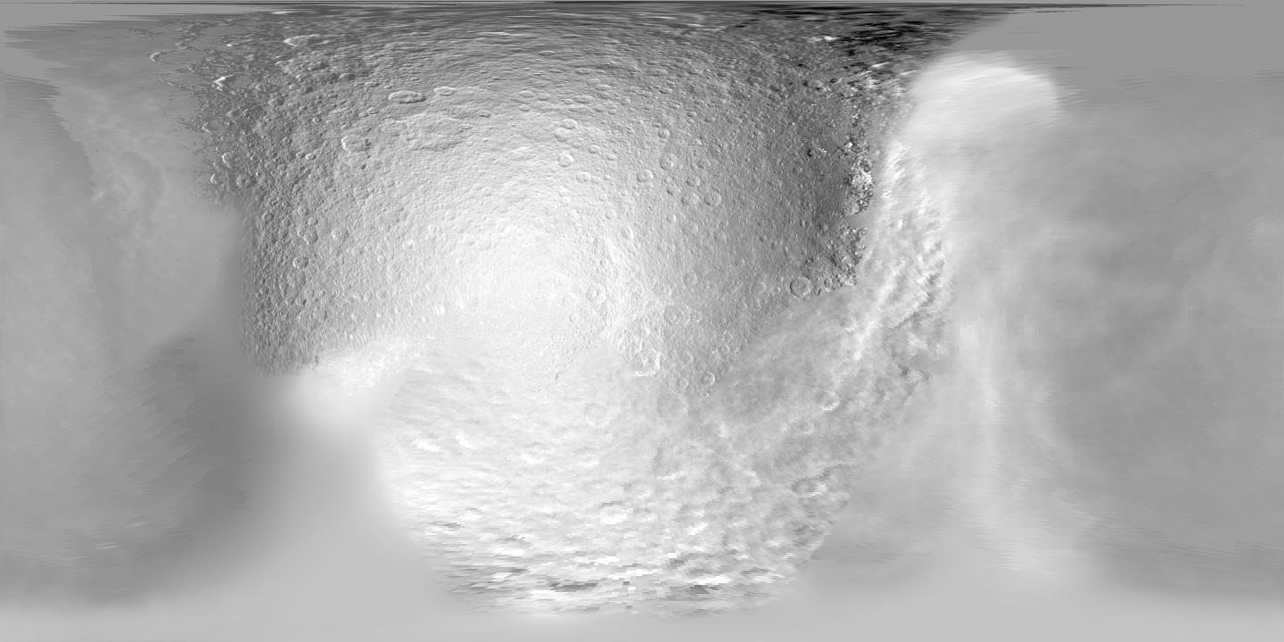 Cleaned up version of Voyager mosaic. Resolution 4 pixels per degree